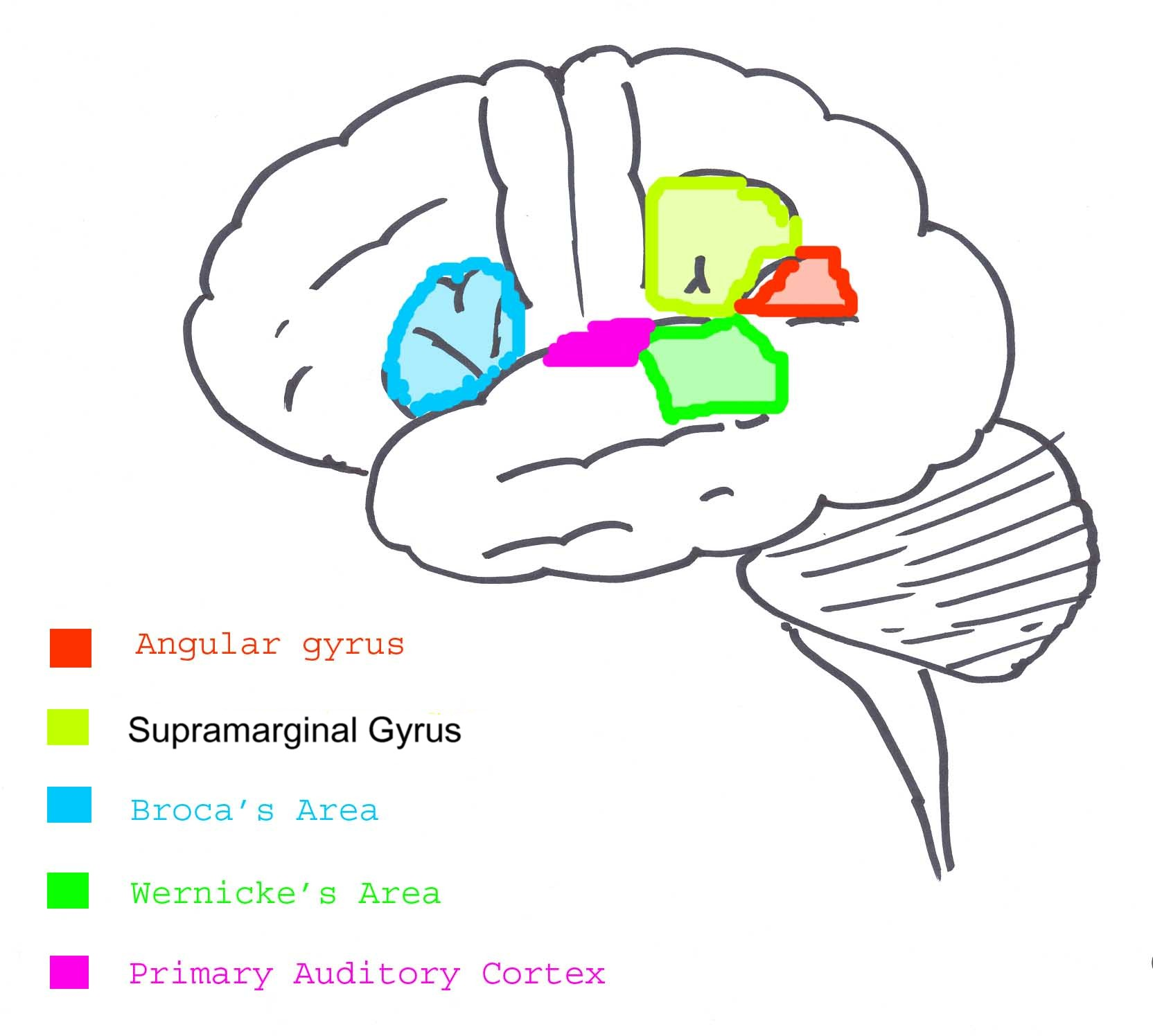 Basic sketch of brain areas involved in language.Author: Reid Offringa creation date: 1/9/06